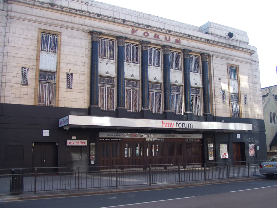 HMV Forum (The Forum), a music venue in Kentish Town, London